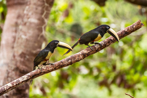 "Araçari-de-bico-branco (Pteroglossus aracari) fotografado em Linhares, Espírito Santo - Sudeste do Brasil. Bioma Mata Atlântica. Registro feito em 2013. ENGLISH: Black-necked Aracari photographed in Linhares, Espírito Santo - Southeast of Brazil. Atlantic Forest Biome. Picture made in 2013."